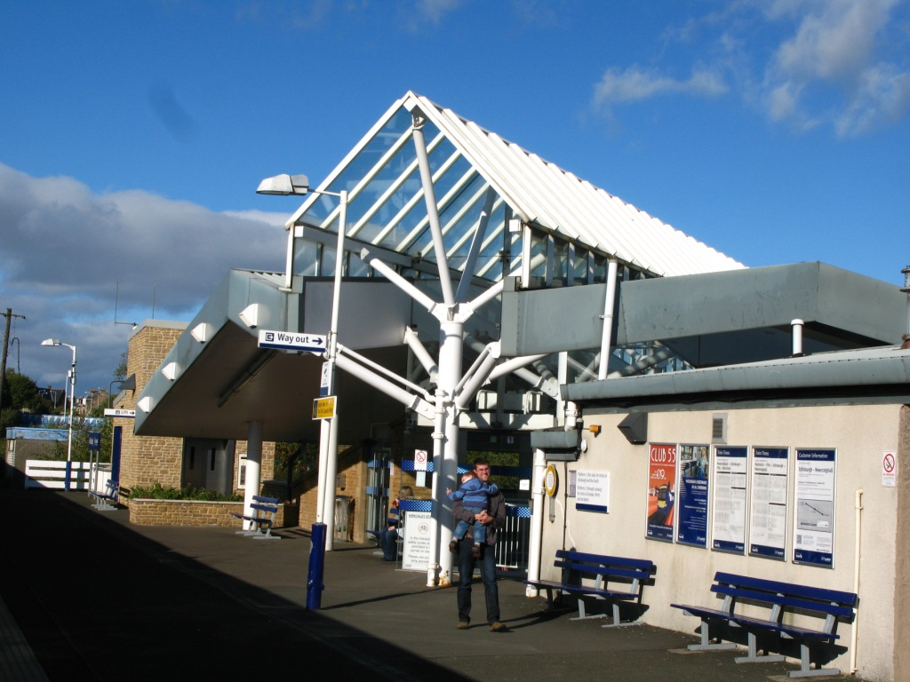 The down side building at Kirkcaldy railway station, seen from the paltform side.